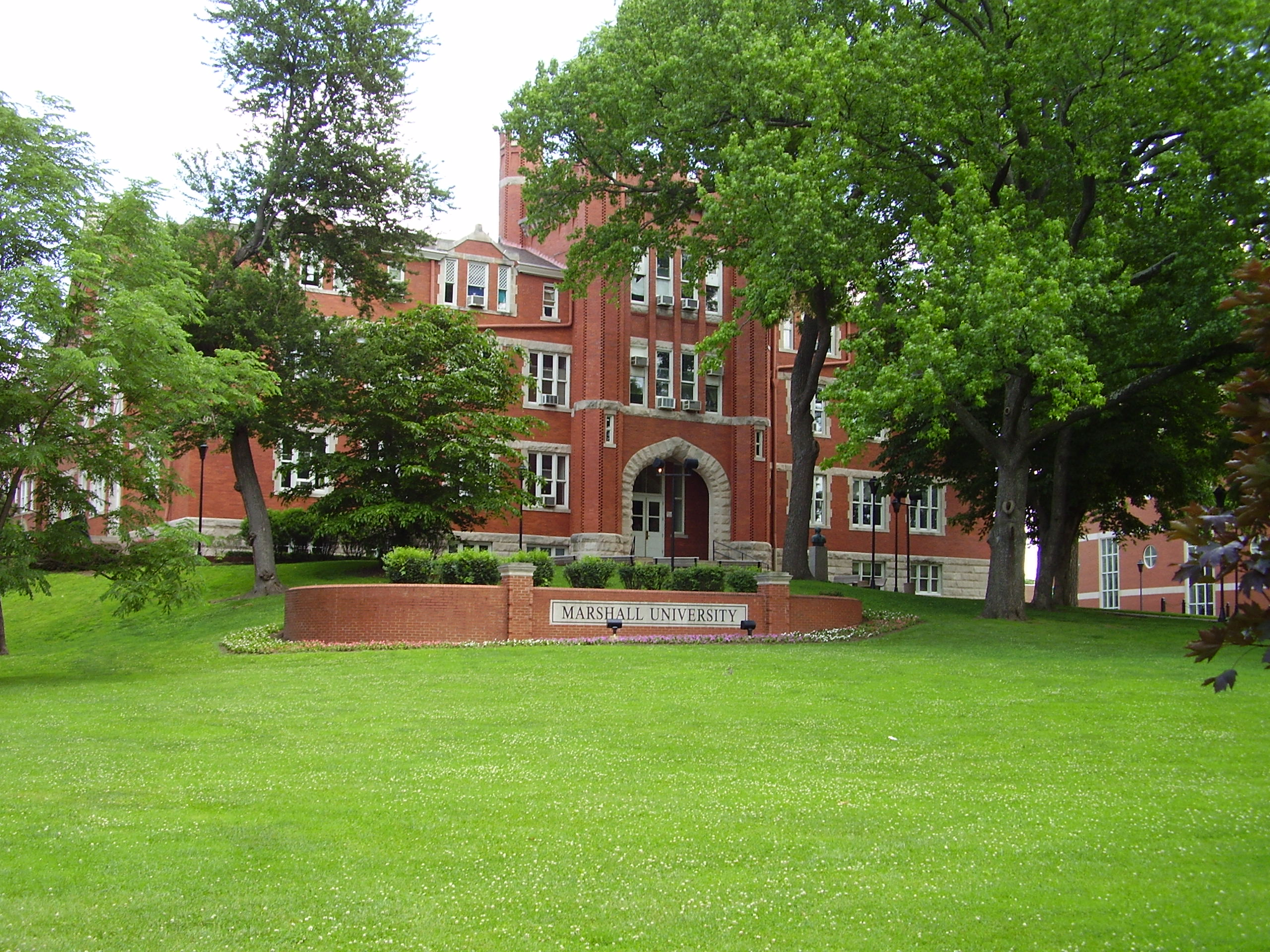 Photo of Old Main building located on the campus of Marshall University in Huntington, West Virginia. The photo was taken from the adjacent sidewalk along Hal Greer Blvd.